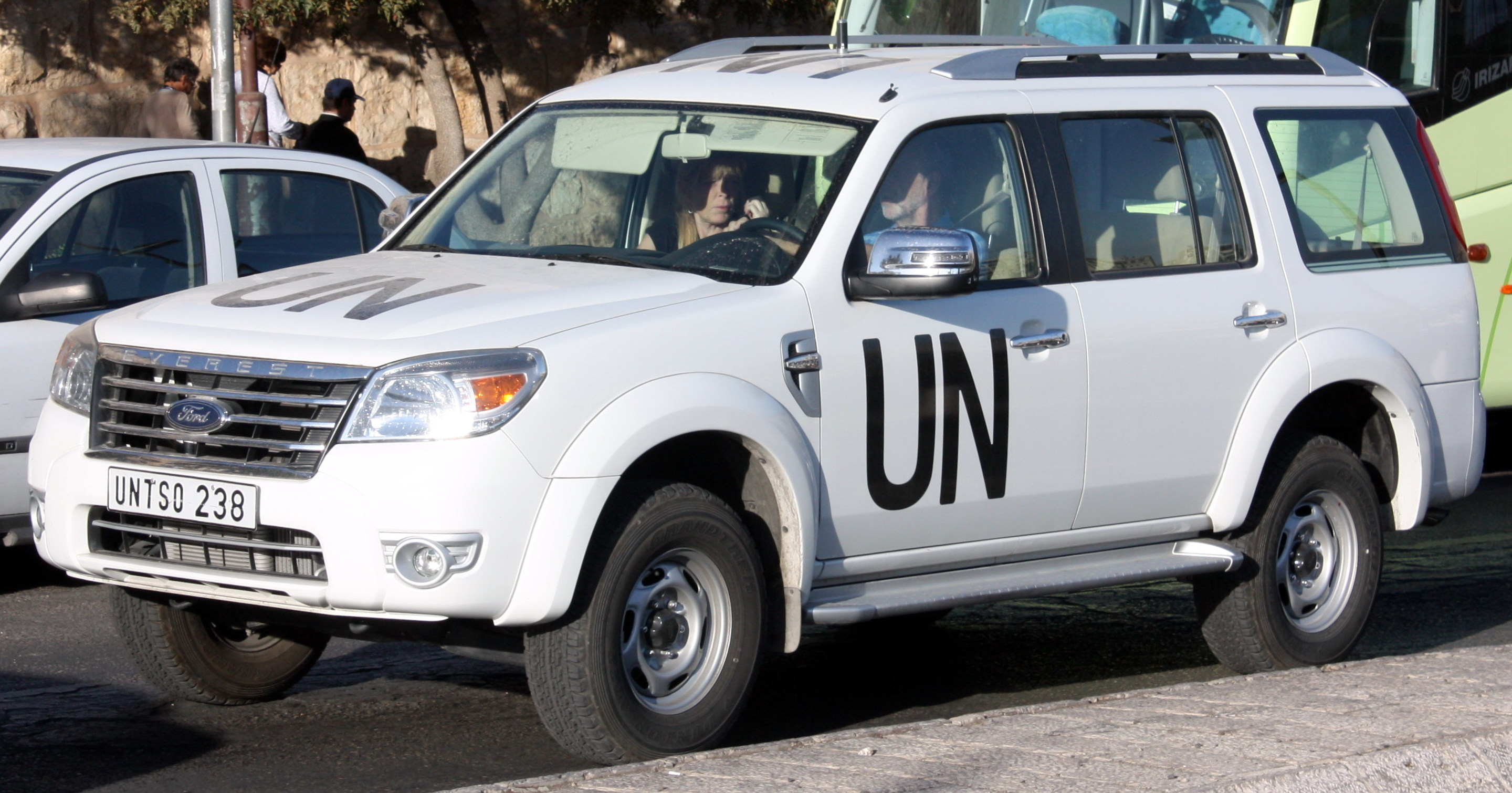 UNTSO vehicle in the streets of Jerusalem, Israel.